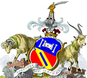 Heraldic achievement of Baron Heathfield: Gules, on a bend or a baton azure on a chief azure the fortress of Gibraltar under it Plus Ultra as augmentation.(Per Genealogy of the Eliot Family, originally compiled by William Horace Eliot, revised and enlarged by William Smith Porter, Newhaven, Conneticut, 1854 [1]. These are the arms of the Eliott Baronets of Stobs, (Debrett's Peerage & Baronetage, 1968, p.279) with augmentation for George Augustus Eliott, the 1st Baron Heathfield and youngest son of the 3rd Baronet